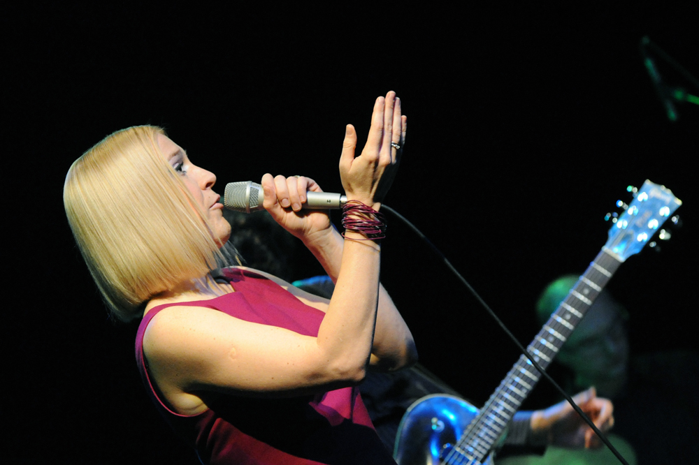 Aga Zaryan performing at a benefit concert for Polish saxophone player Tomasz Szukalski in Warszawa, Poland on November 21, 2010.